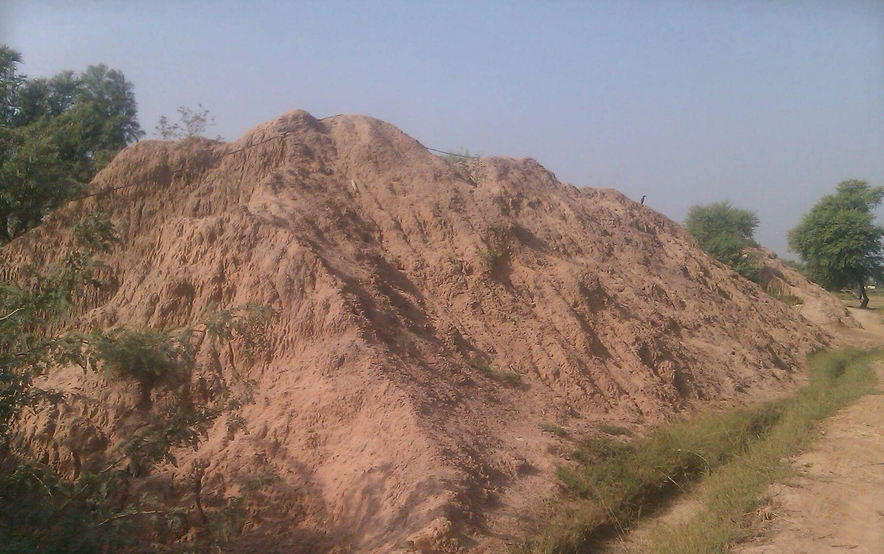 I also Uploaded this Photo on Botala Facebook Page & on website